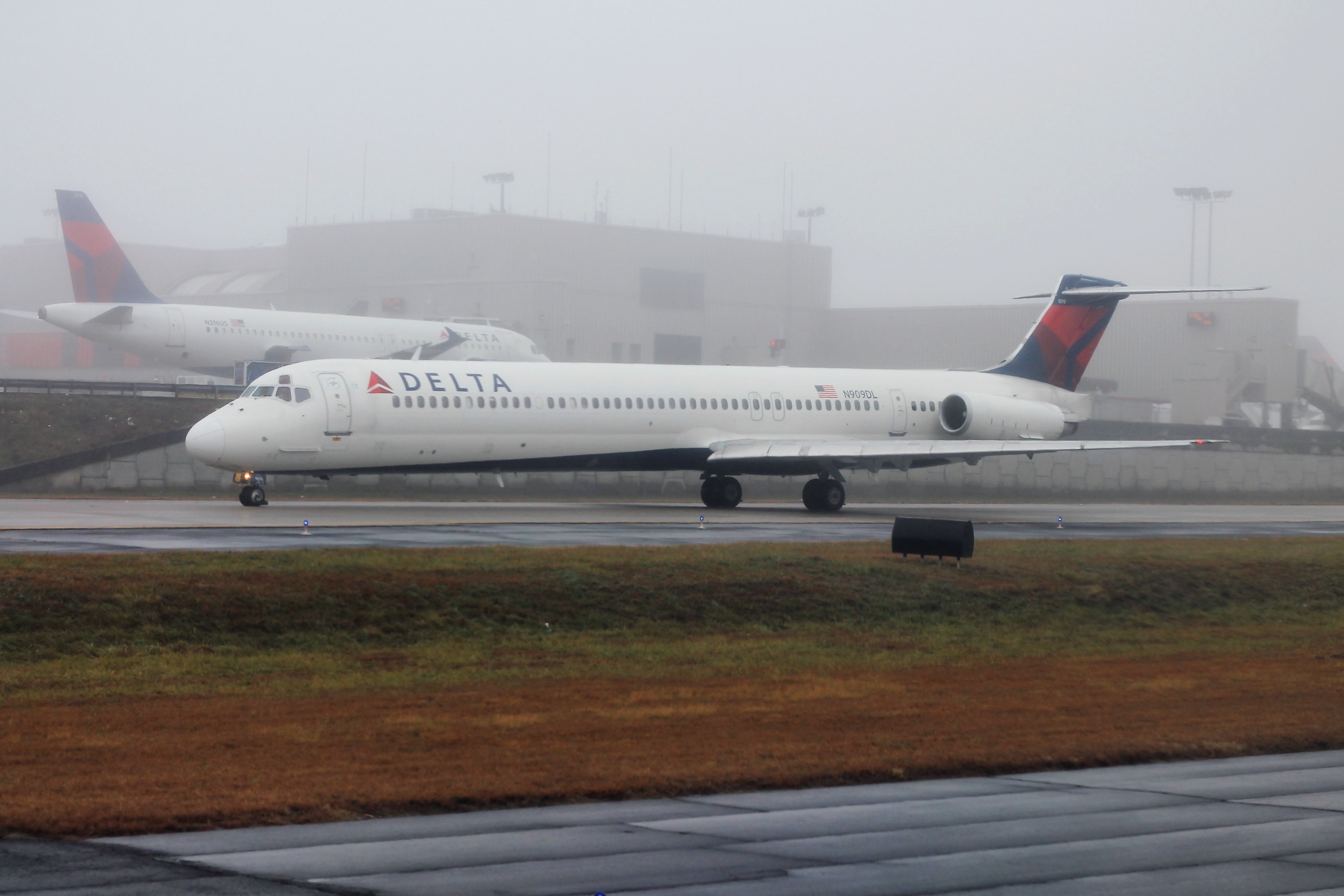 Delta Air Lines' N909DL, photographed in January 2015 on a foggy and wet Monday morning in Atlanta. This aircraft skidded off the end of the runway at La Guardia on March 5th, 2015 as Delta Flight 1086.